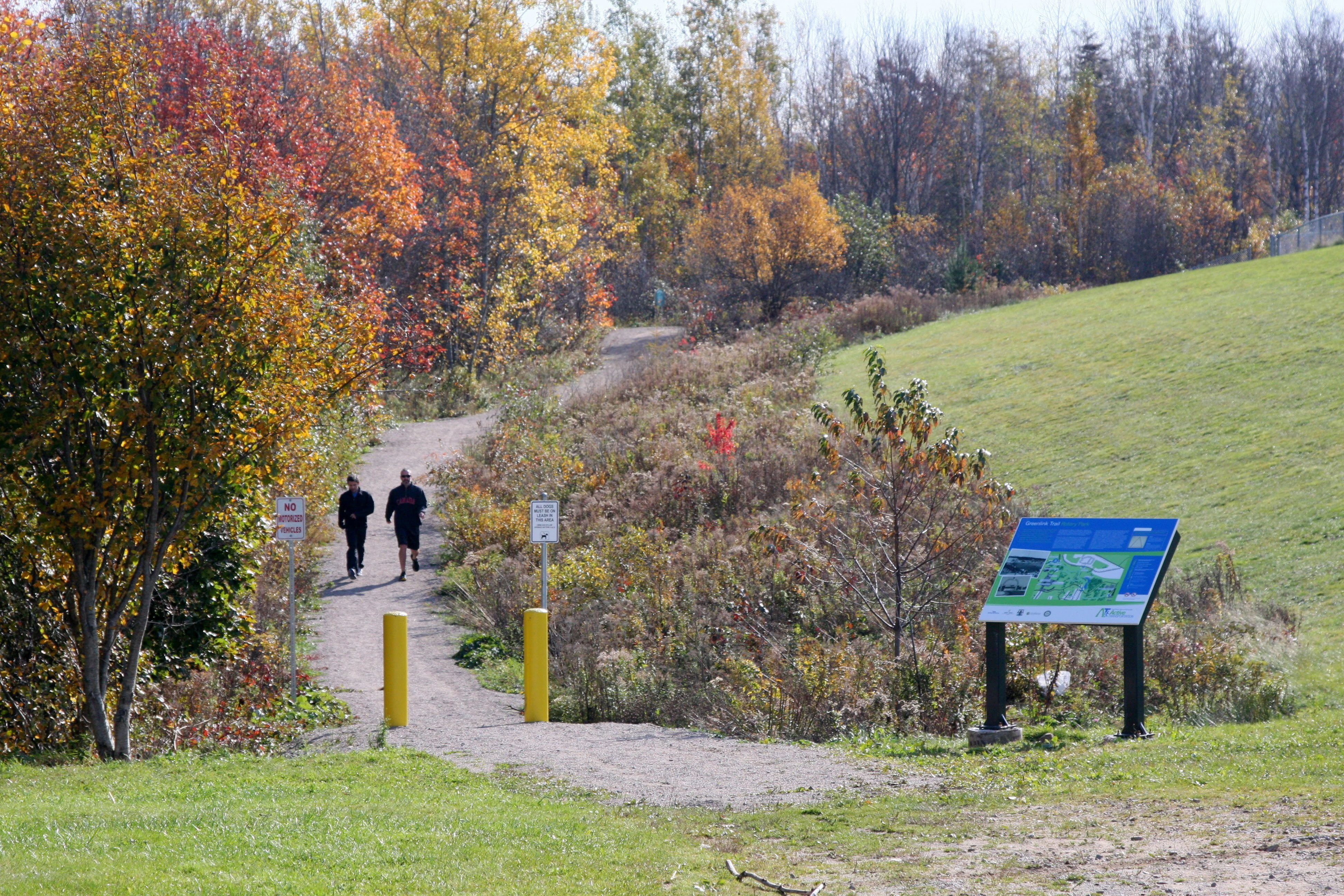 Rotary Park - GreenLink Trails, Sydney, NS - St. Anthony Daniel Ball Field Entrance. Greenlink Rotary Park Trail System is a Canadian urban park located in Sydney, part of Nova Scotia's Cape Breton Regional Municipality. Greenlink Trail System is a series of 2.5 to 3 metres (8 to 10 ft) wide crushed limestone paths suitable for walkers and cyclists. The gravel surfaces are not suitable for wheelchairs or strollers. The paths meander through a scenic natural area bordering Wentworth Creek (Reservoir Brook, also know as Sullivan's Brook) and a historic water reservoir with a stone dam and waterfall. The paths are not illuminated at night. Benches have been provided along the paths for resting, signs and interpretive displays for information. The trail system connects Sydney’s Shipyard and South End neighbourhoods to Membertou First Nation and the Cape Breton Regional Hospital. Two of the trails system progress from Shandwick Street and the St. Anthony Daniel Ball Park. Both trails converge with the trail from Rotary Drive, cross Churchill Drive, and extend to the Cape Breton Regional Hospital property.